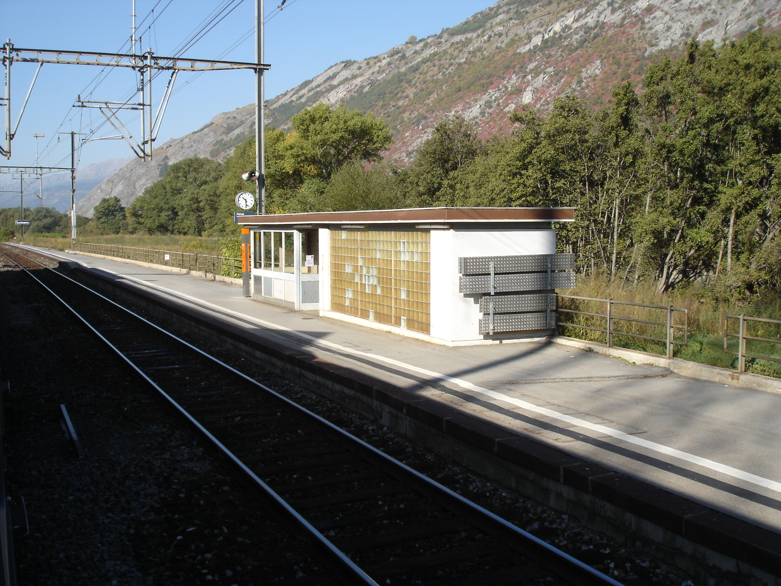 SBB station Turtmann direction Valais